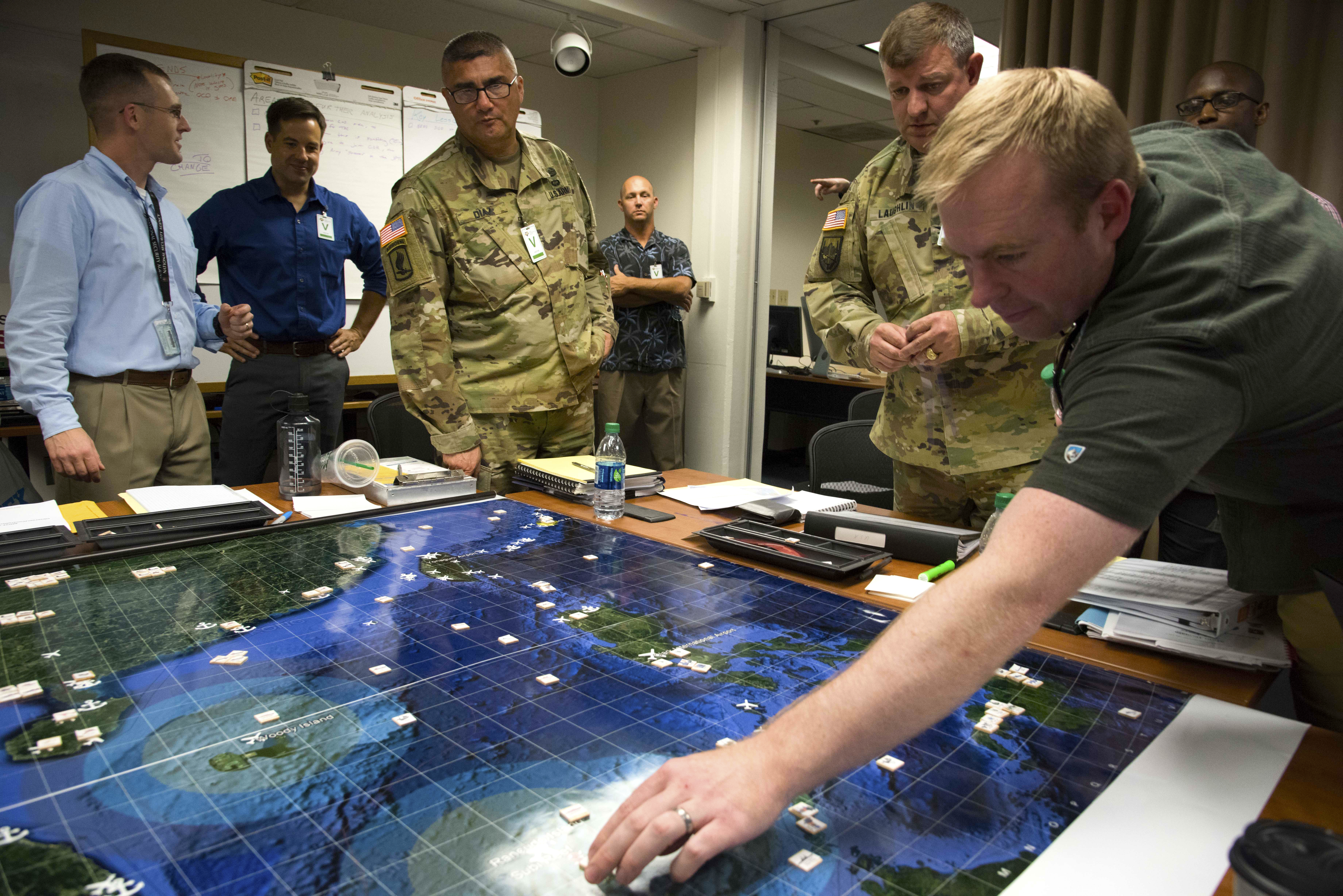 US Naval Postgraduate School students participate in analytic wargames they designed to explore solutions for some of Department of Defense's most pressing national security concerns.